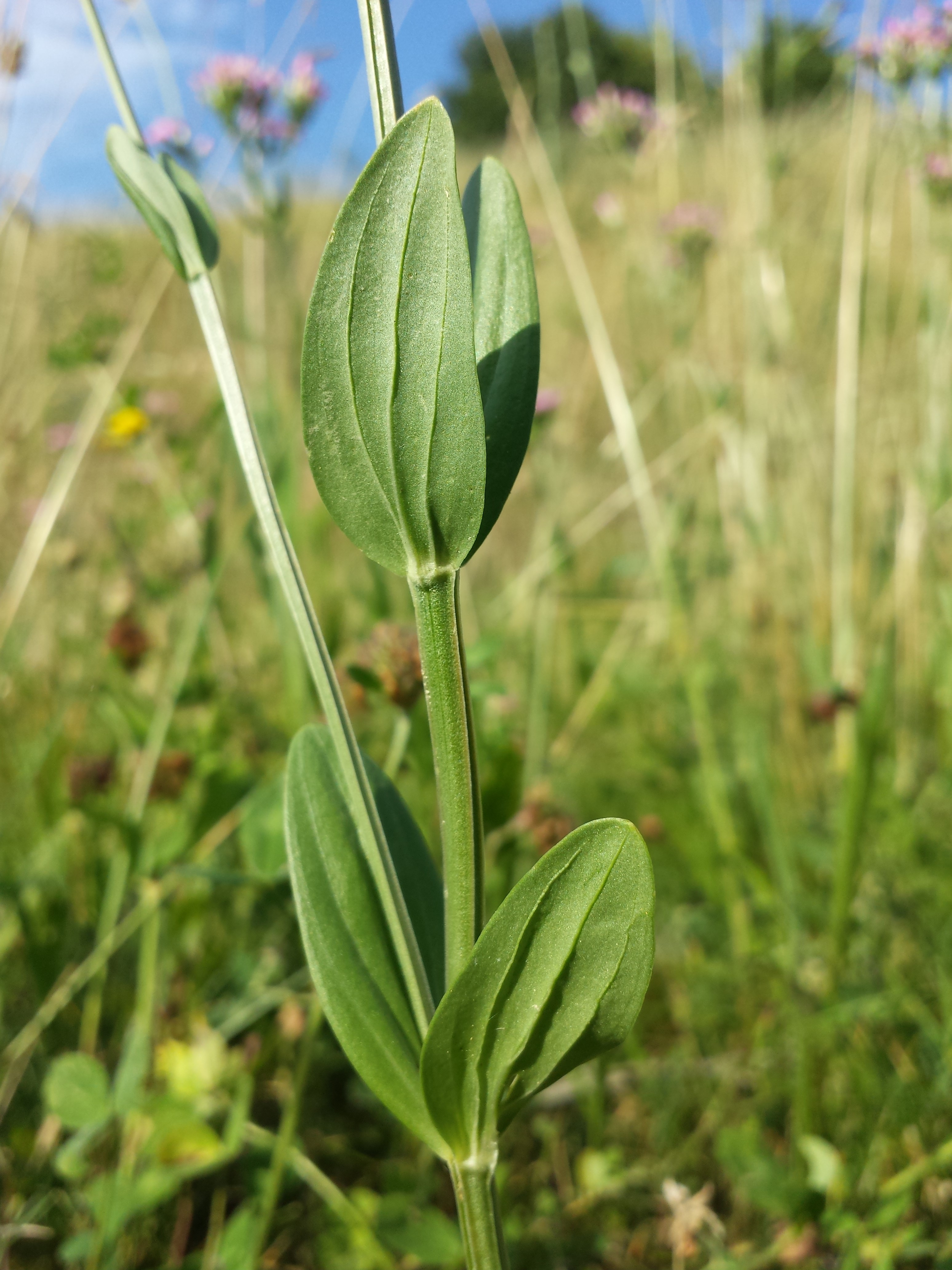 Stem with leaves Taxonym: Centaurium erythraea (subsp. erythraea) ss Fischer et al. EfÖLS 2008 ISBN 978-3-85474-187-9 Location: Neue Donau, district Korneuburg, Lower Austria - ca. 160 m a.s.l. Habitat: dry meadows